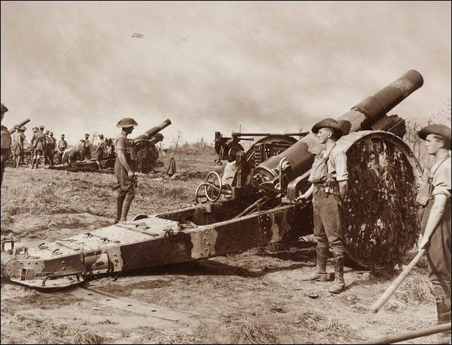 Photograph of a battery of 8 inch Howitzers of Australian 54th Siege Artillery Battery, Western Front, 1917. The gun is mounted on the Vickers firing platform, with the traversing rail visible beneath the end of the trail.